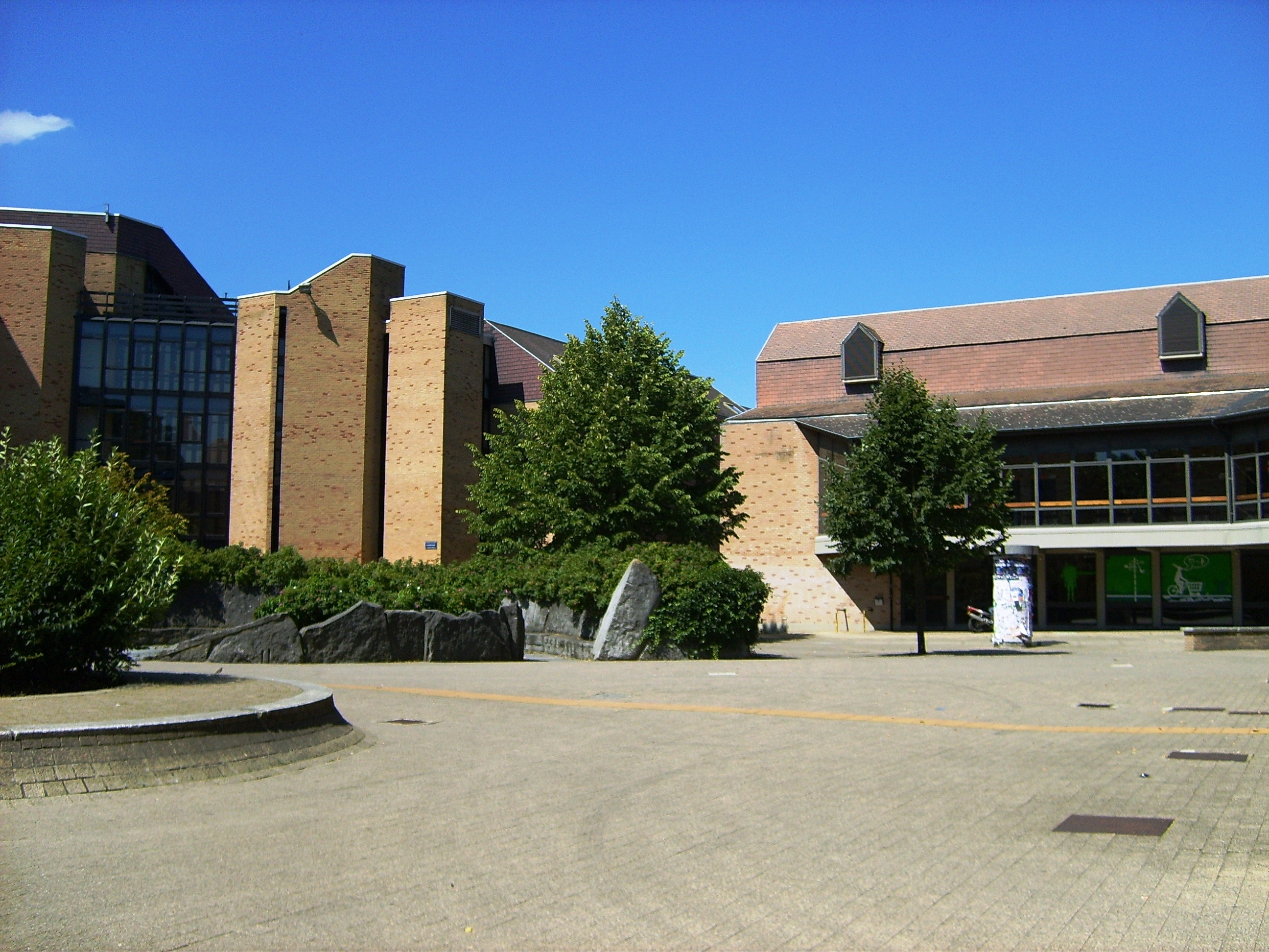 Louvain-la-Neuve, Belgium, the place Montesquieu with the law faculty and the Montesquieu lecture halls.